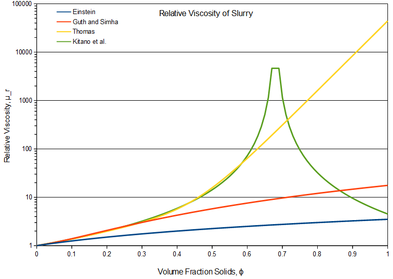 Plot of slurry viscosities as calculated by empirical correlations from Einstein, Guth and Simha, Thomas, and Kitano et al..